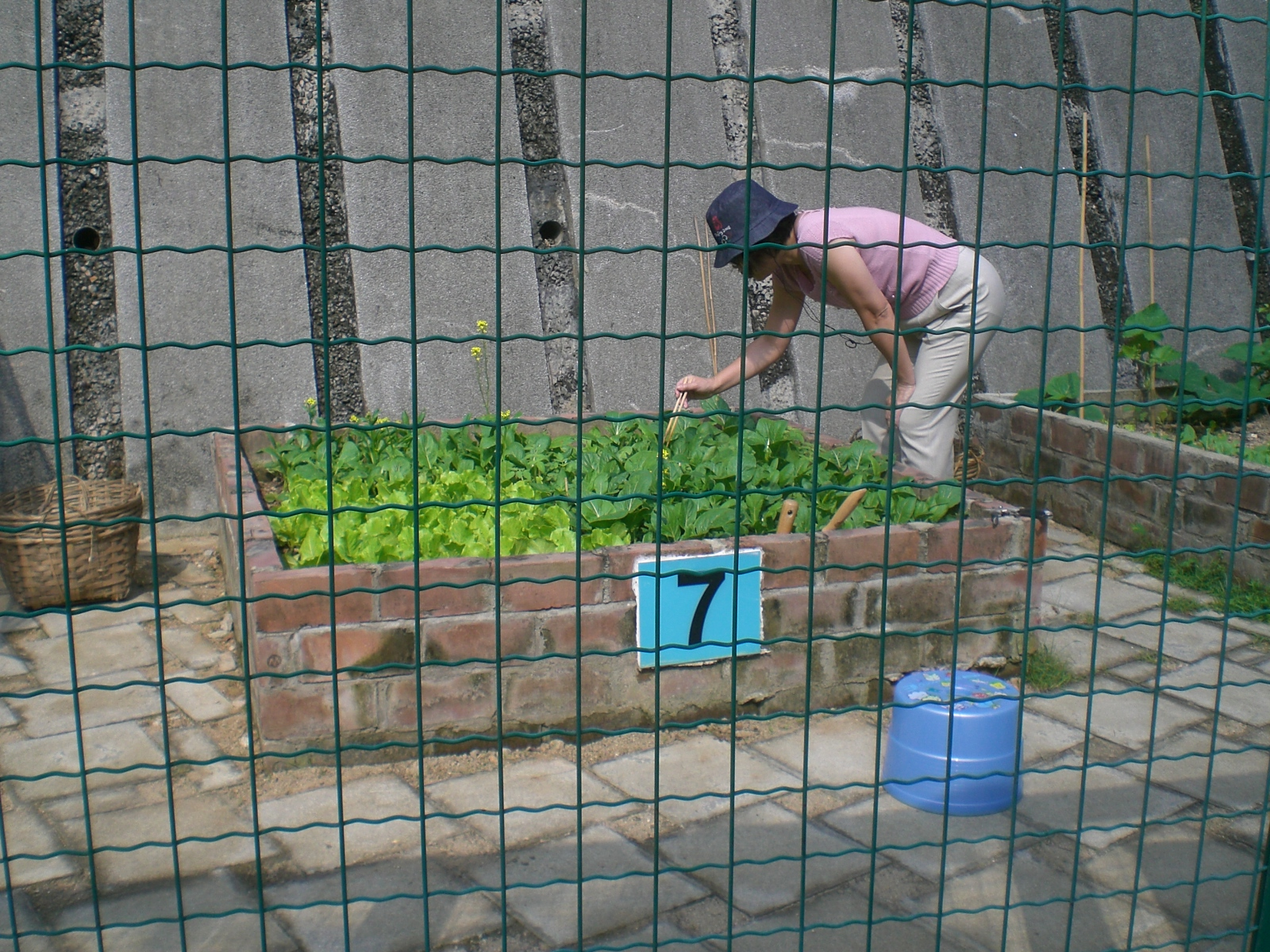 gardening, metal fence, Chai Wan Park-Wan Chai Park, Hong Kong. 灣仔公園zh:園藝